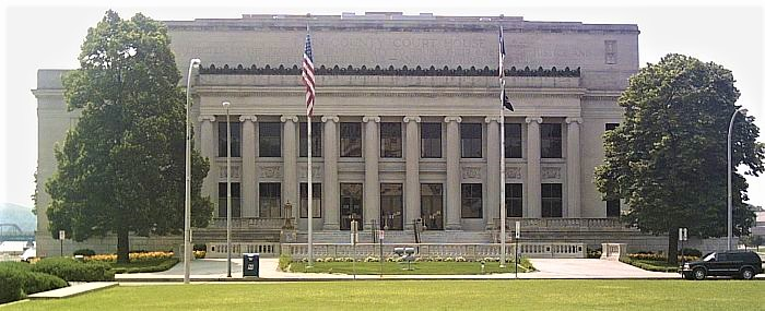 Linn County Court House in Cedar Rapids, Iowa, photographed by User:Iowahwyman on June 17, 2007.